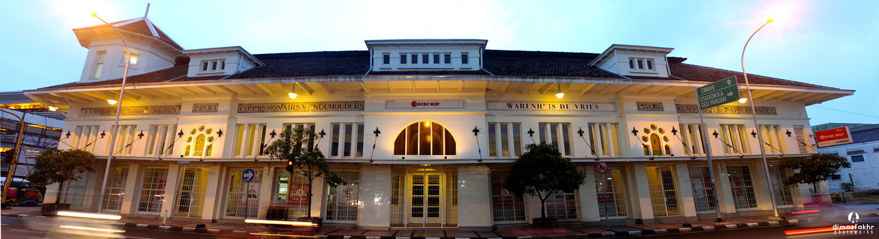 Panoramic of OCBC NISP building in Jl. Asia Afrika, Bandung